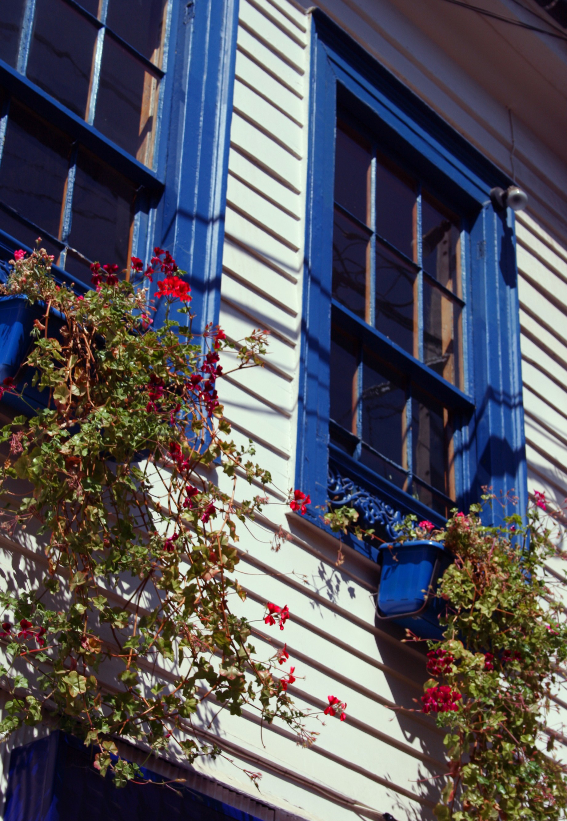 Chile